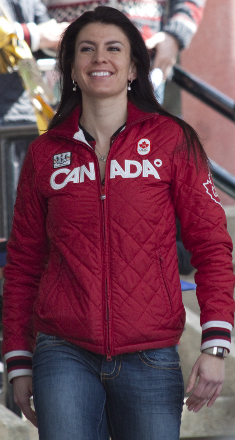 Mellisa Hollingsworth at a salute to Canadian Olympians and Paralympians with a connection to Alberta, that was put on at the Olympic Plaza in Calgary, Alberta, Canada. The photo has been resized down (the original had a lot noise from a high ISO), was cropped to remove other people and distractions, and was touched up to remove unwanted spots&marks.